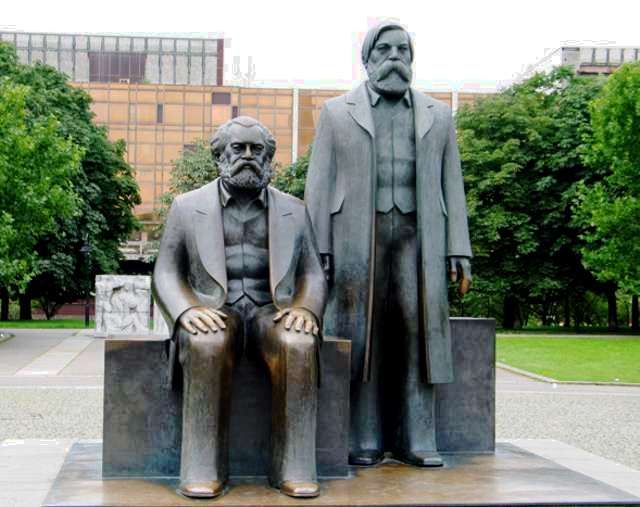 Marx and Engels statue in Berlin